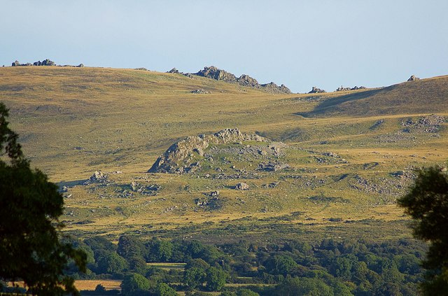 Carn Menyn from Eglwyswrw There's a layby on the A487 that seems to have been put there just so people can get these evening views. The serrated edge of Carn Menyn is on the horizon, with Carn Alw (SN13873371) below it.